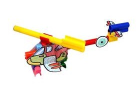 Connector Pen Craft- Helicopter Model